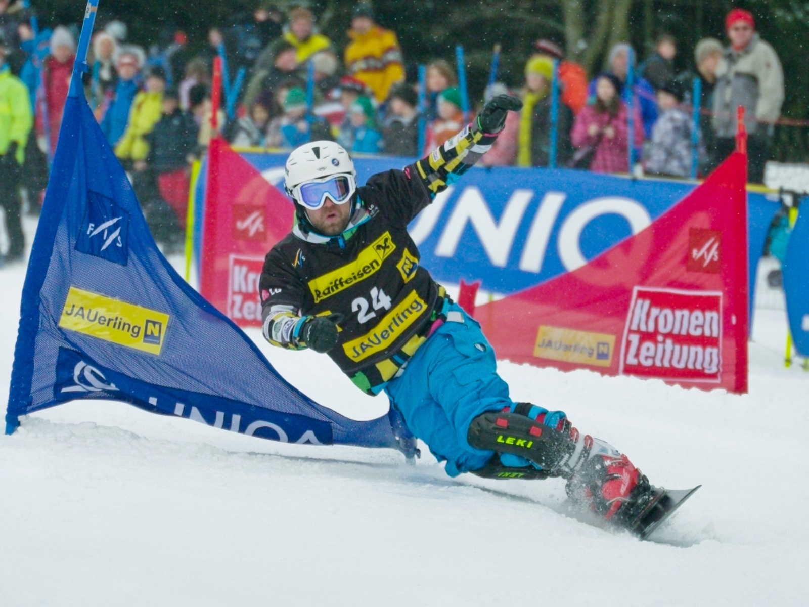 Russian snowboarder Stanislav Detkov in the qualification round of the World Cup Parallel Slalom at the Jauerling in Austria on 13 January 2012.